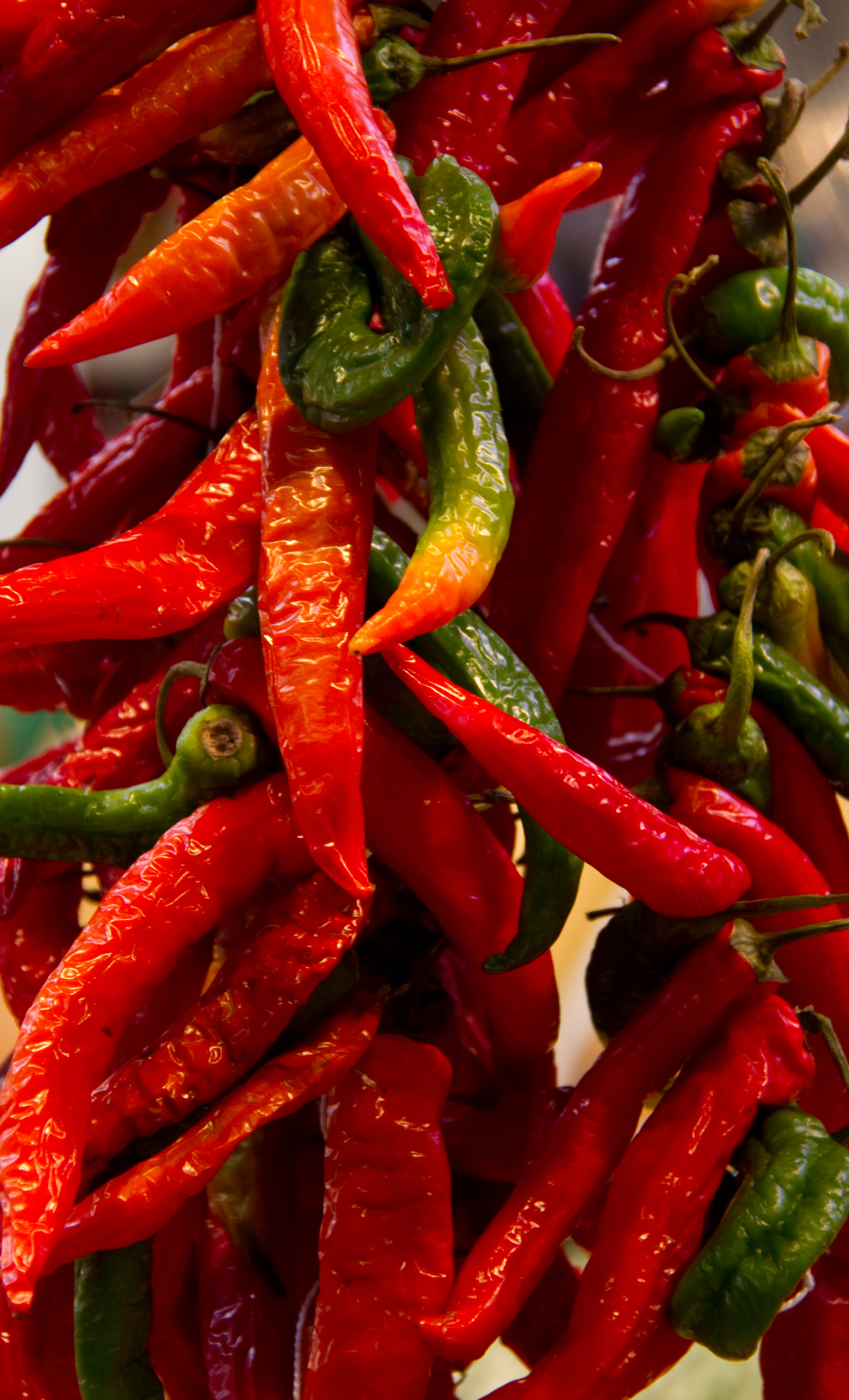 Chillies